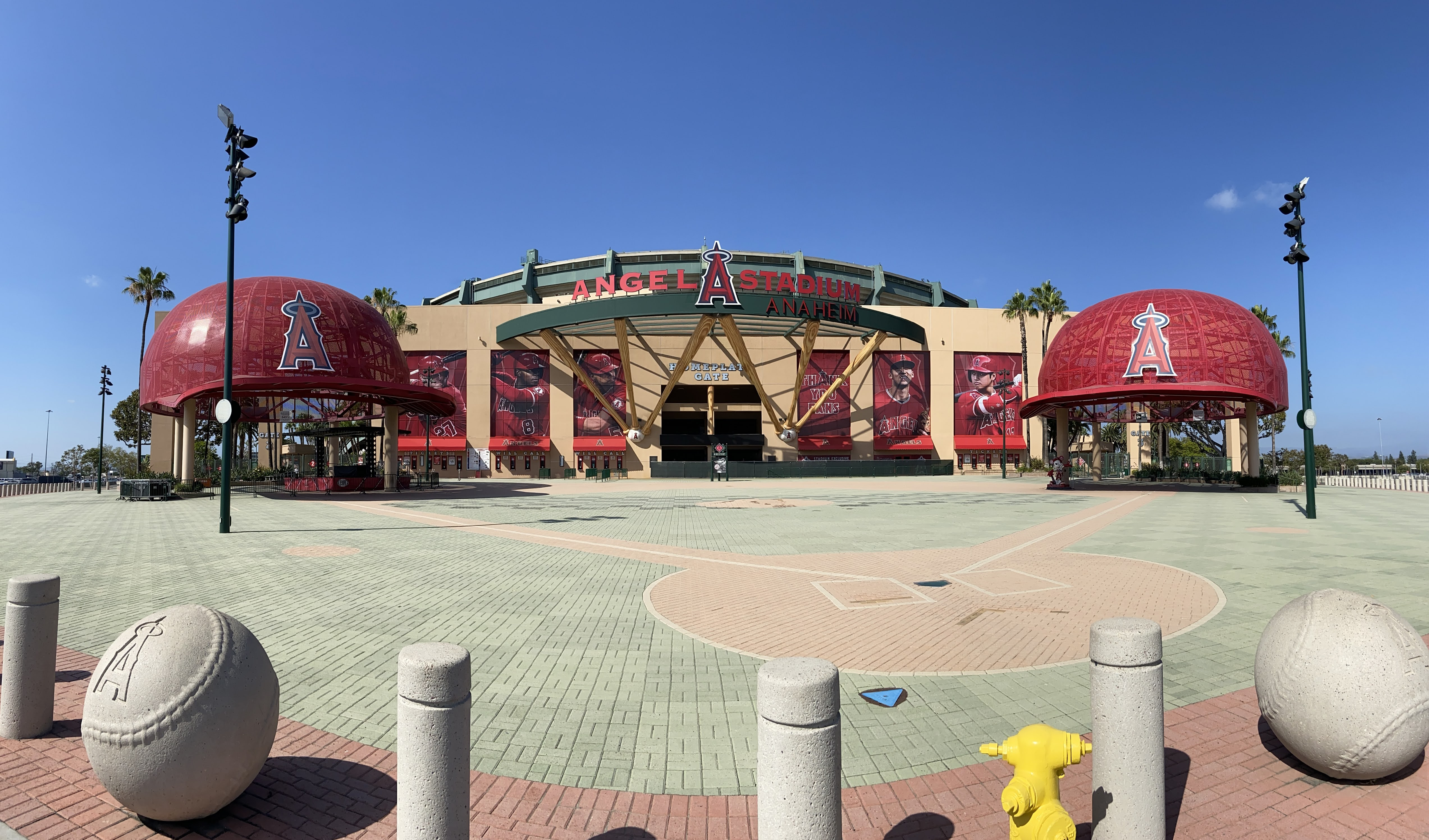 Home Plate entrance of Angel Stadium - June 2020